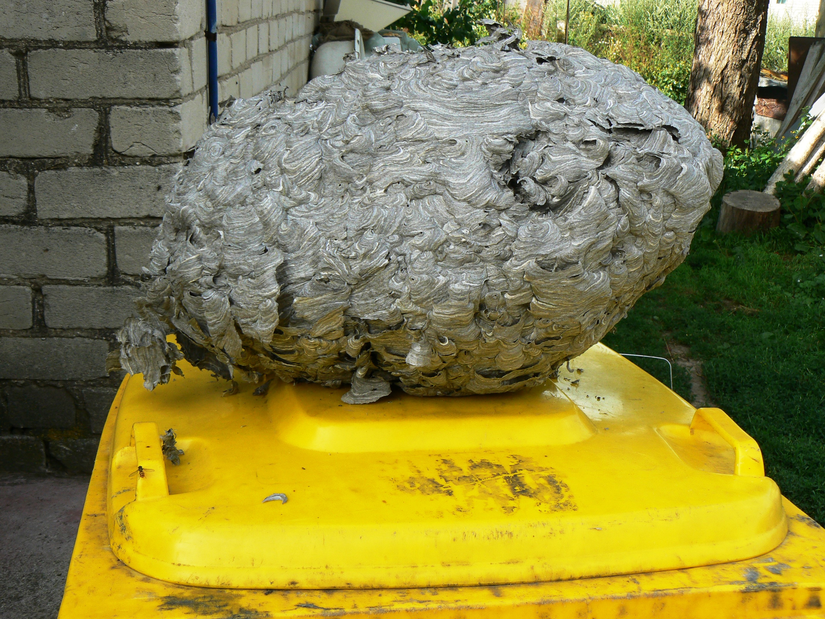 Wasp nest in Lithuania, diameter about 50 cmLietuvių: Lietuviškų širšių lizdas, apie 50 cm pločio